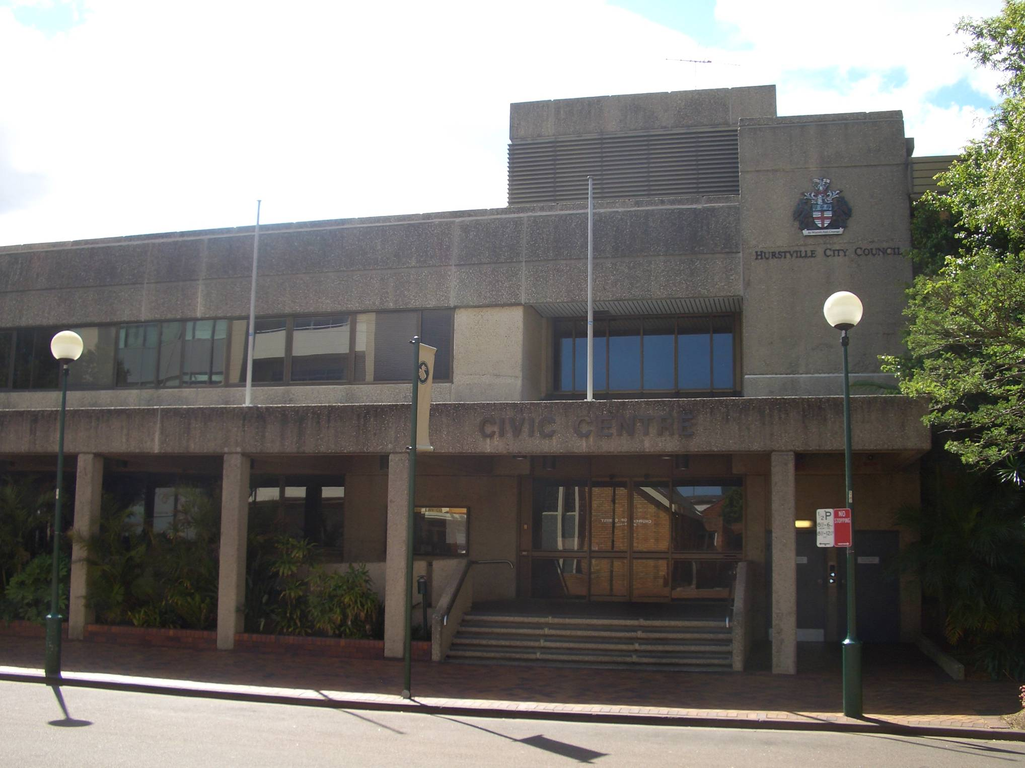 City of Hurstville Council Chambers